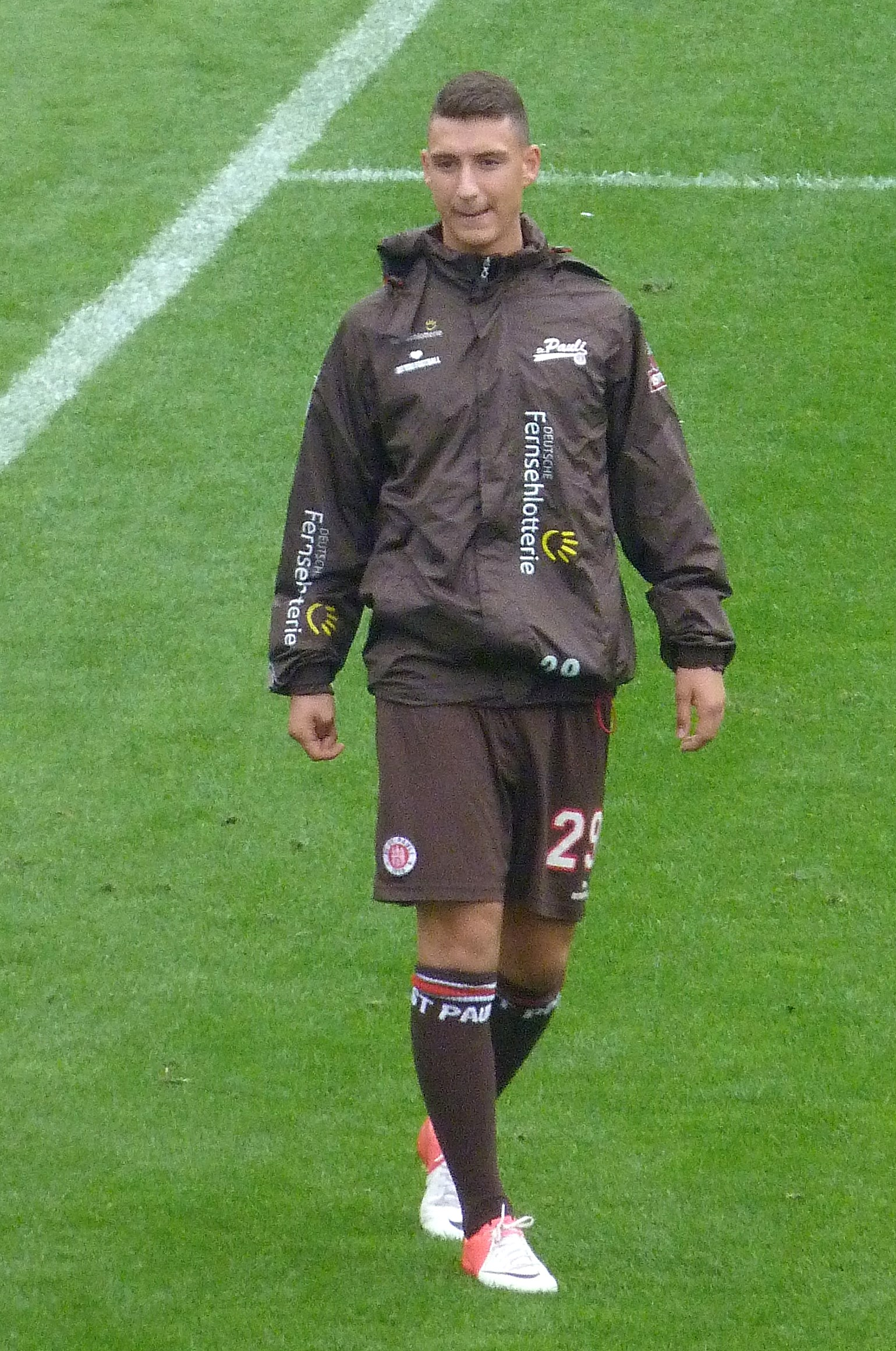 Marcel Andrijanić as Player from the FC St. Pauli